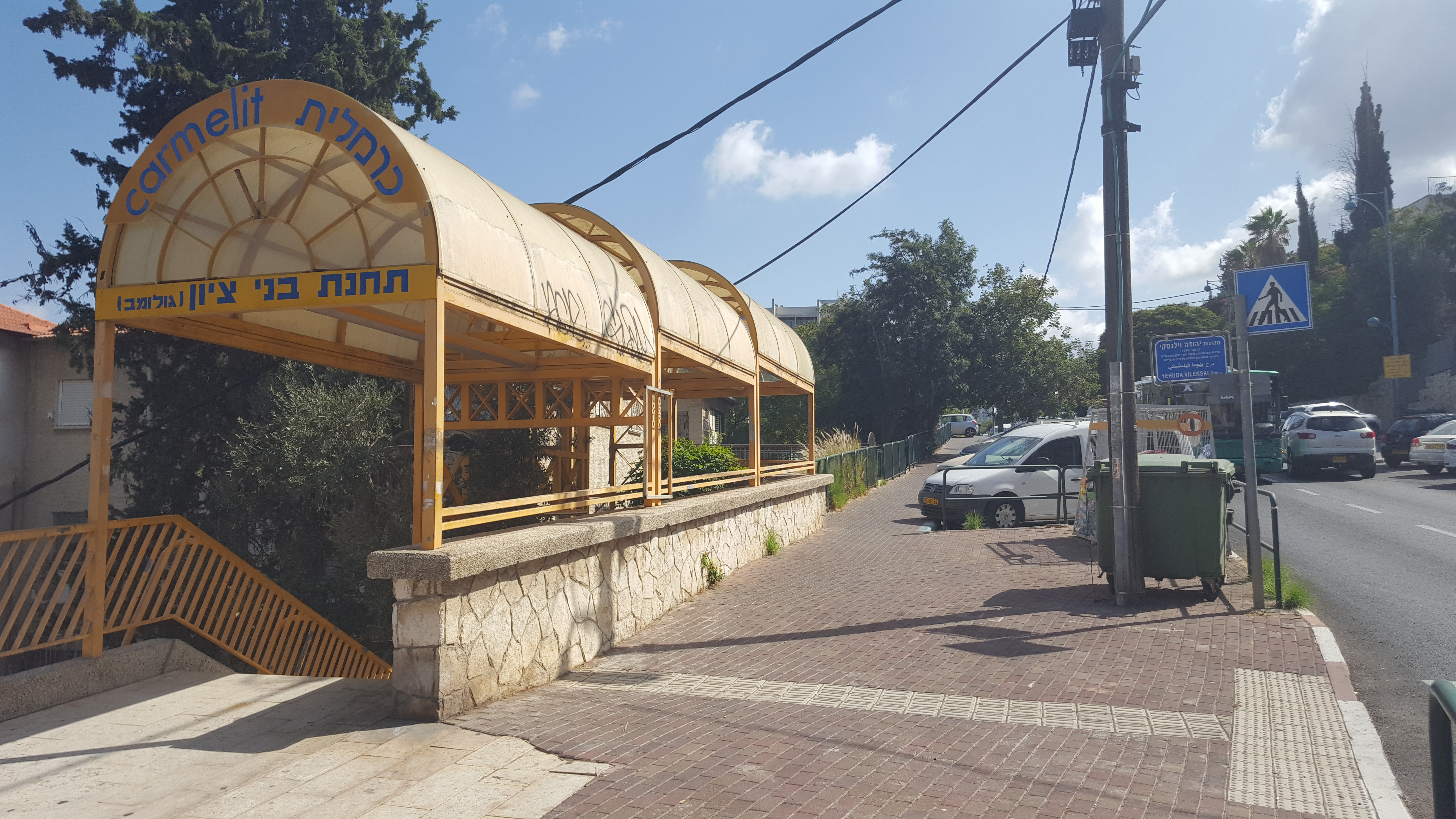 Carmelit funicular in Haifa